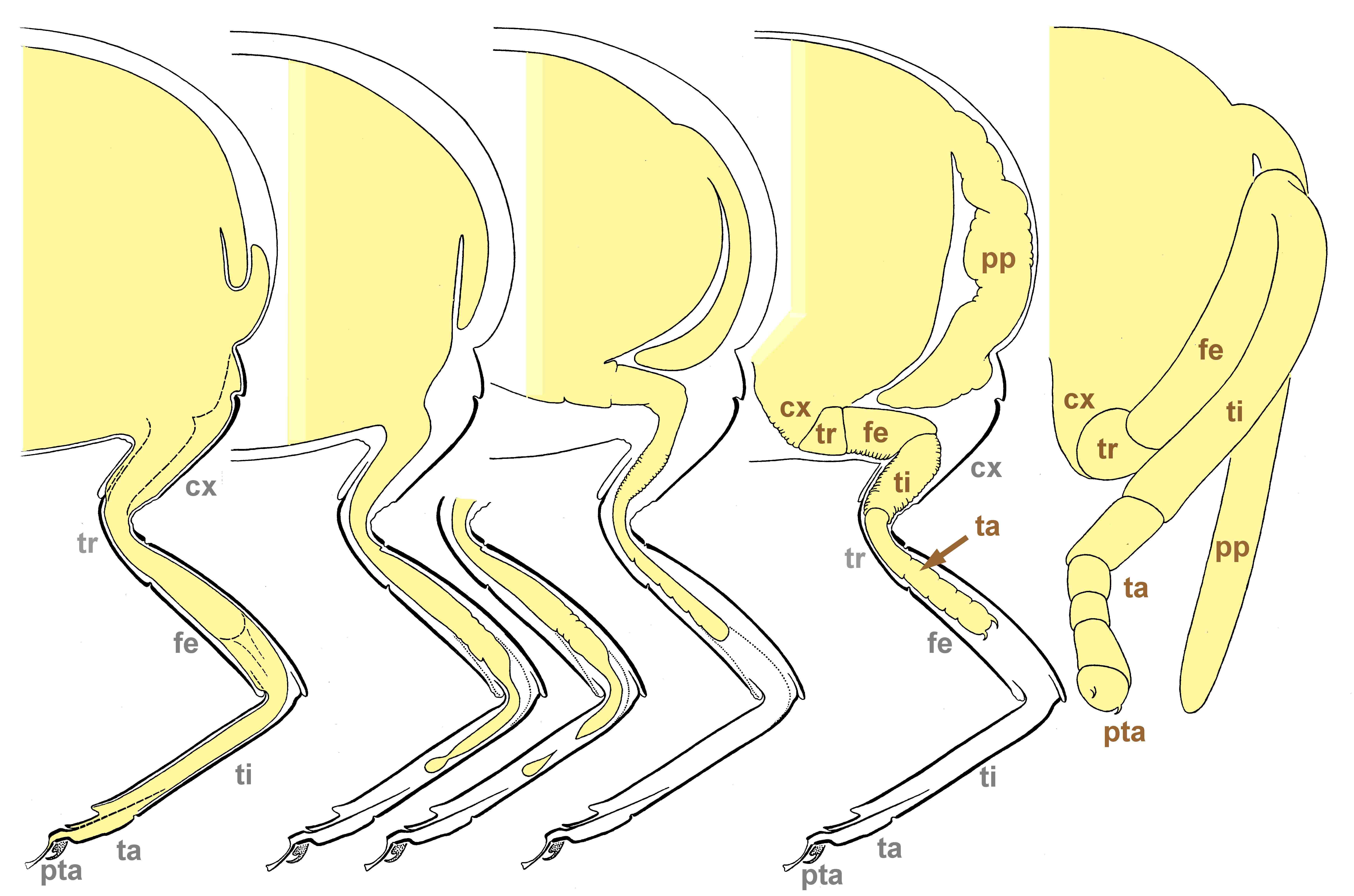 Transverse section of right half of metathorax of pronympha and pupa of green lacewing Chrysoperla carnea at subsequent stages of development